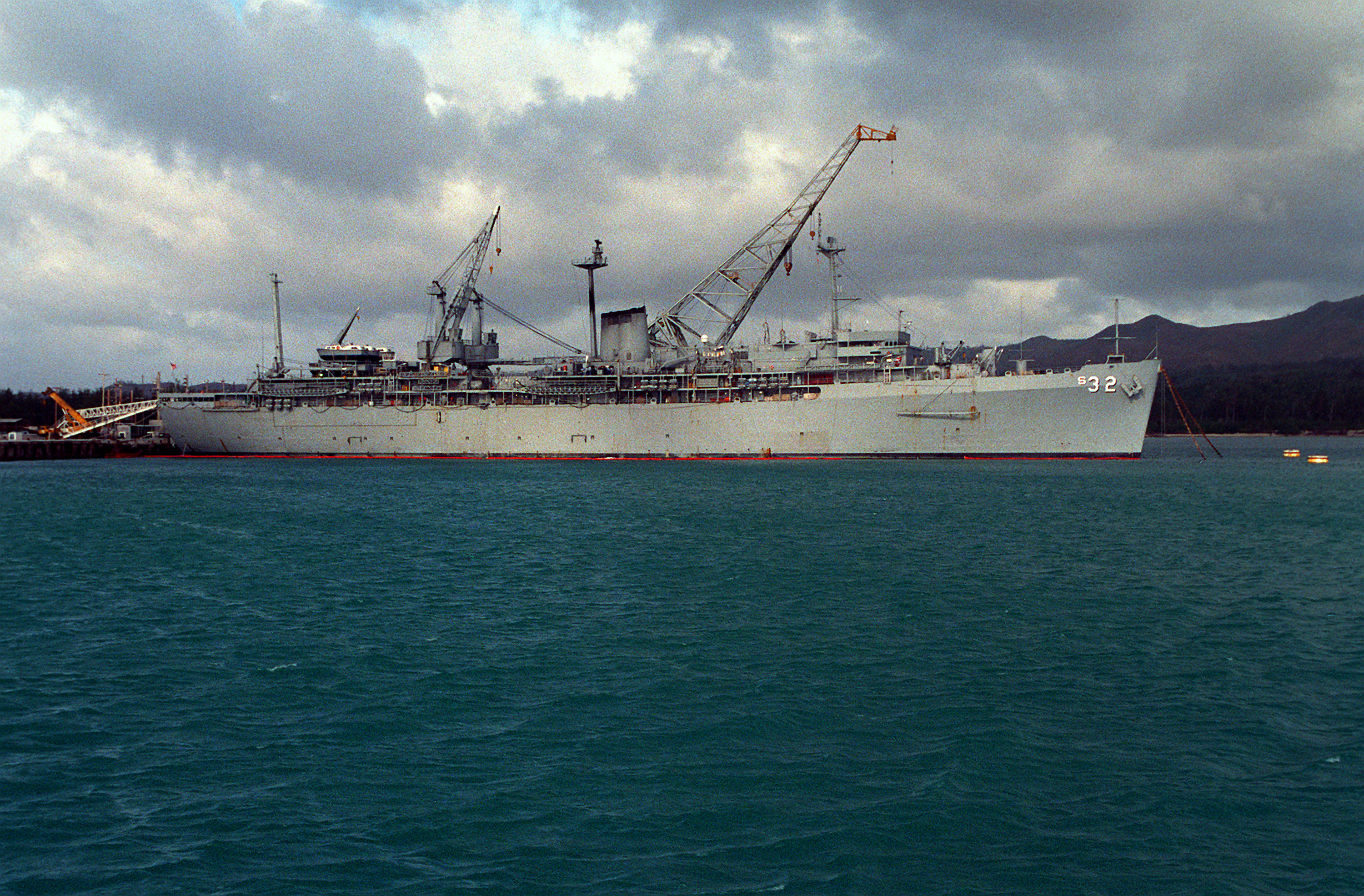 The U.S. Navy the submarine tender USS Holland (AS-32) off Apra Harbor, Guam, on 1 September 1993.